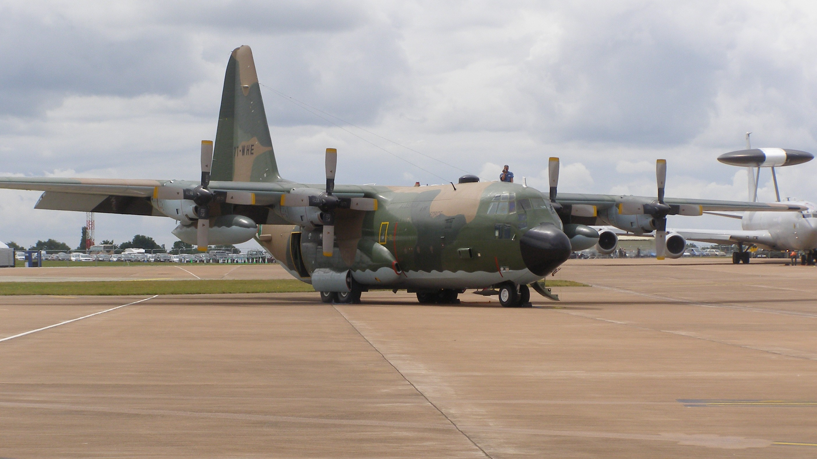 Lockheed C-130H Hercules (7T-WHE) of the Algerian Air Force at the Royal International Air Tattoo 2009 at RAF Fairford, England